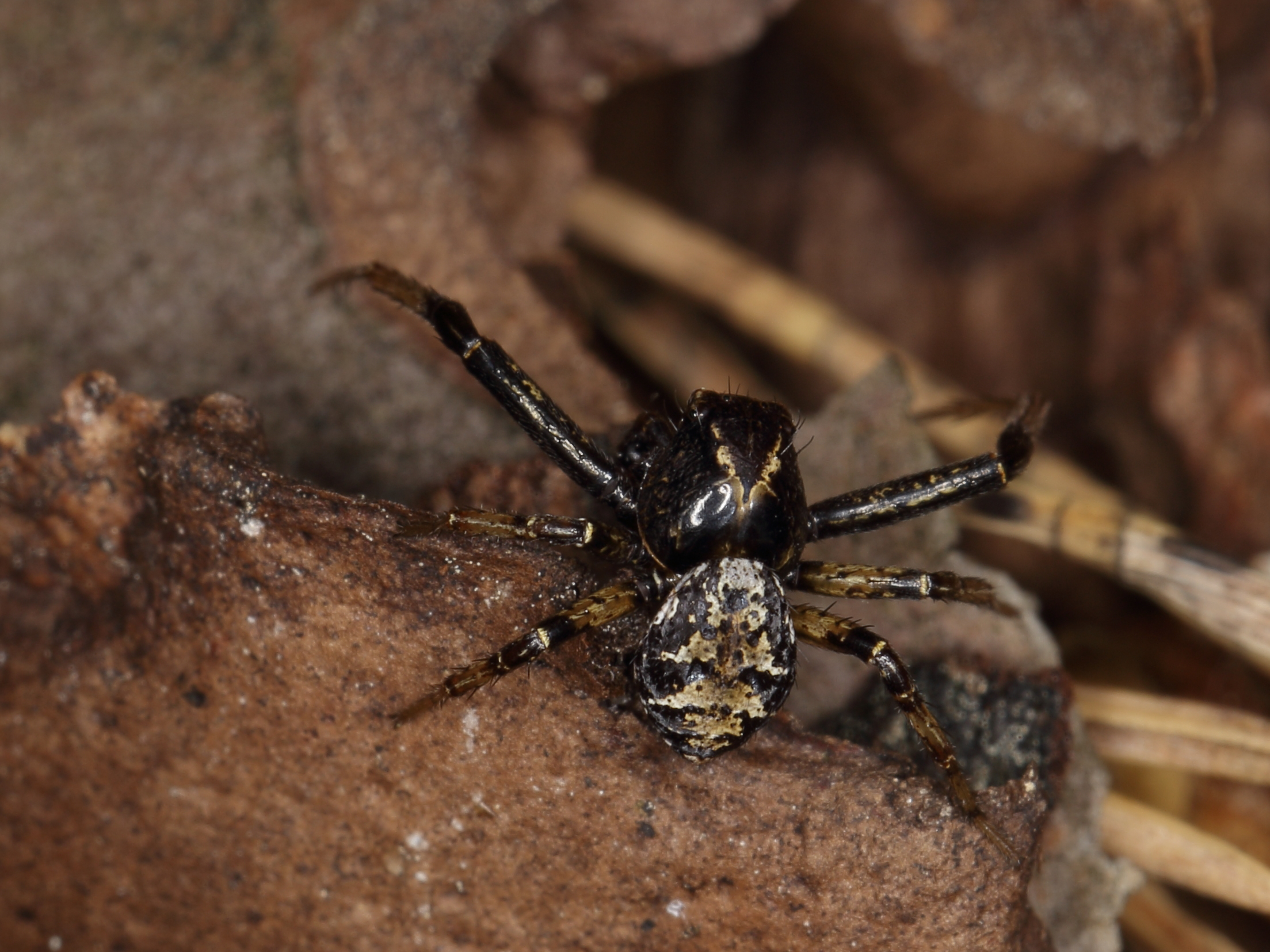 L: ♂ 4-5mm, ♀ 6-8mm Phylum: Arthropoda LATREILLE, 1829 (arthropods, Gliederfüßer) Subphylum:Chelicerata Class:Arachnida CUVIER, 1812 (arachnids) Subclass: Micrura Order: Araneae CLERCK, 1757 (spiders, Spinnen) Suborder: Araneomorphae (Echte Webspinnen) Superfamily: Thomisoidea Family: Thomisidae SUNDEVALL, 1833 (Crab spiders, Krabbenspinnen) Genus: Xysticus C.L. KOCH, 1835 probably: Xysticus audax SCHRANK, 1803 E-Germany, Brandenburg: vic. Storkow, 16.06.2013 IMG_1117